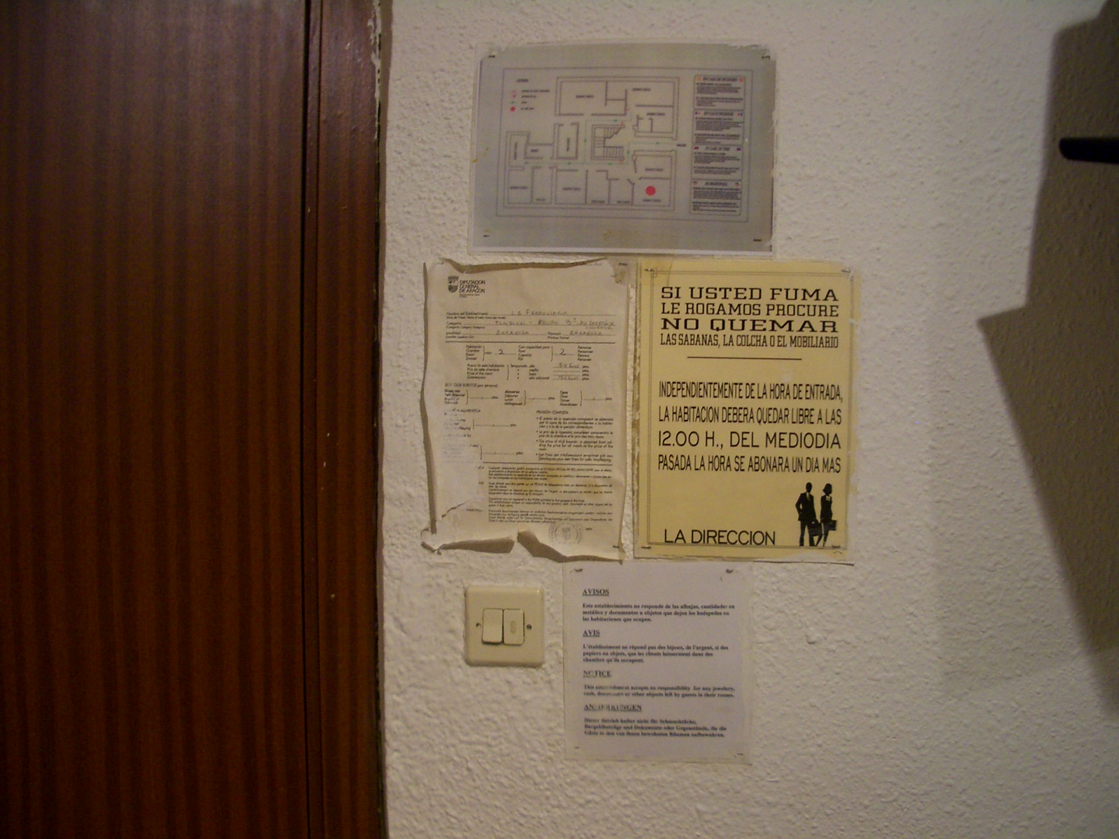 Signs in a room of a budget hotel near the old train station in Zaragoza, Spain. While smoking is not prohibited, smokers are urged not to burn bed linen, pillows, or furniture